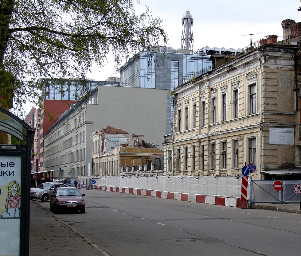 82-84, Sadovnicheskaya Street, Moscow - demolition in progress